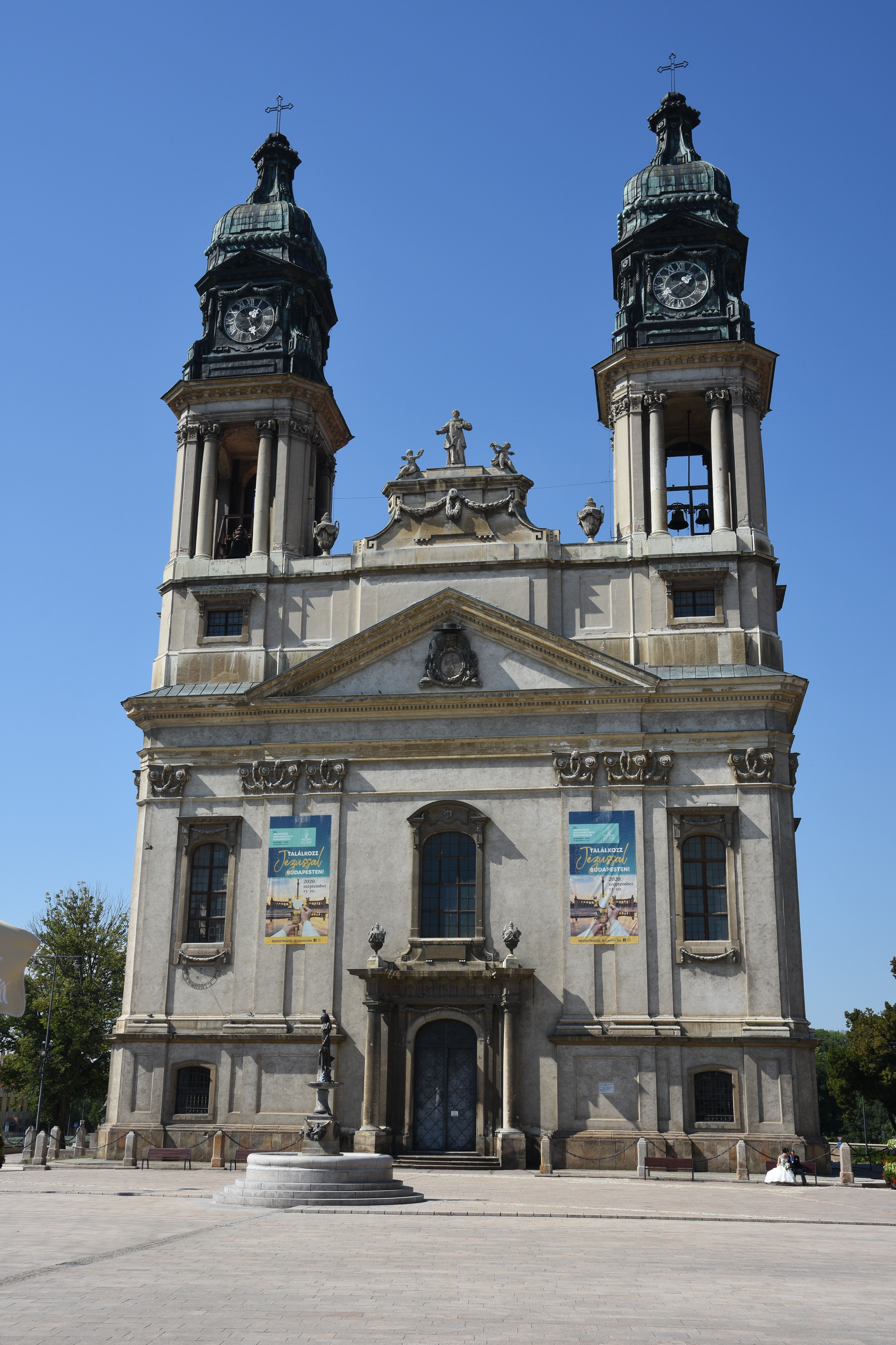 Saint Stephen parish-church in Pápa